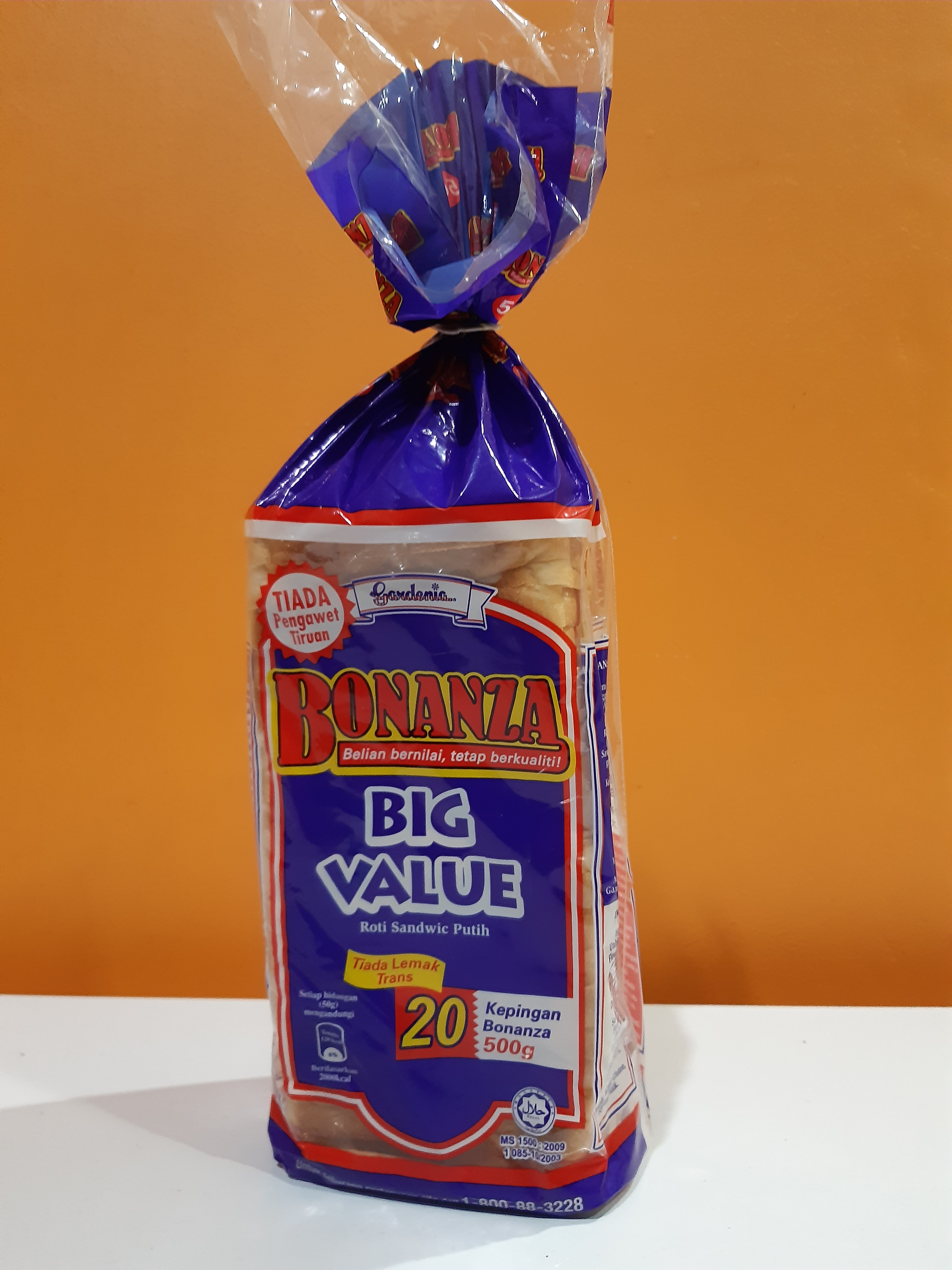 Bonanza bread malaysia version